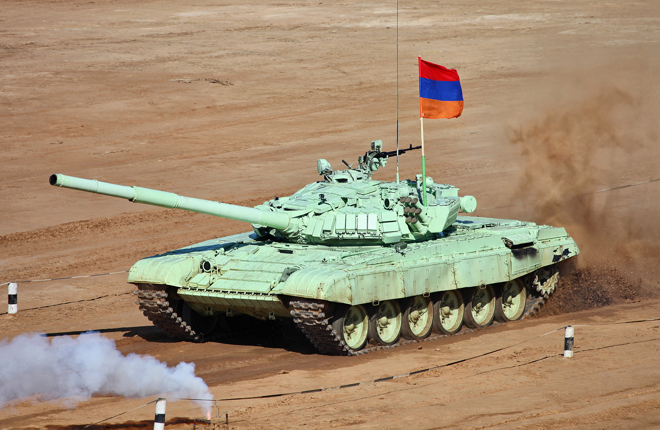 T-72B